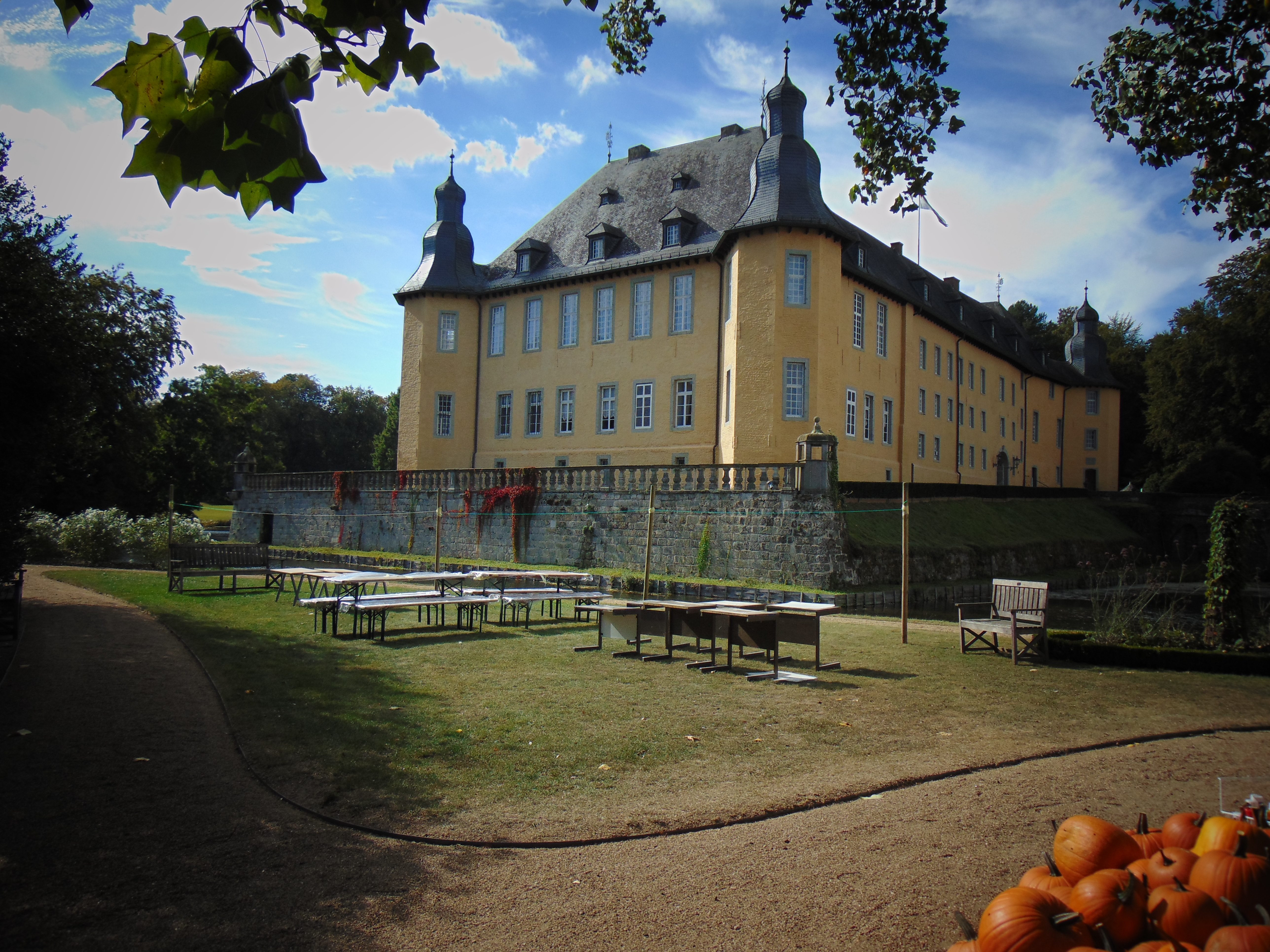 This is a photograph of an architectural monument., no. 006